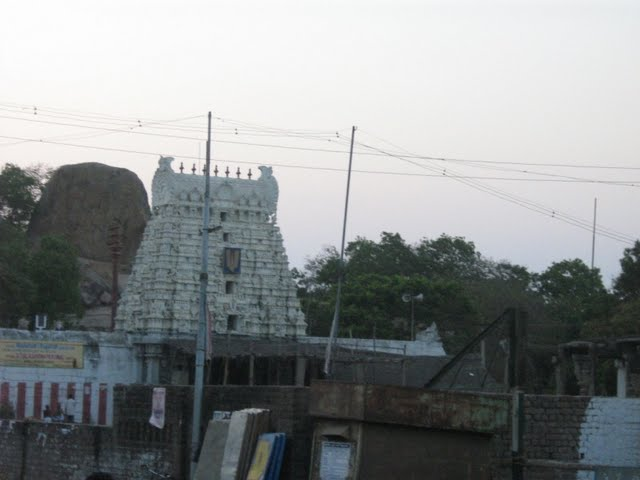 Thirukkadalmallai Temple Originally uploaded here